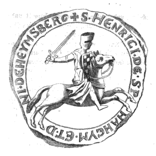 Seal of Heinrich of Sponheim, Herr of Heinsberg († 1259)